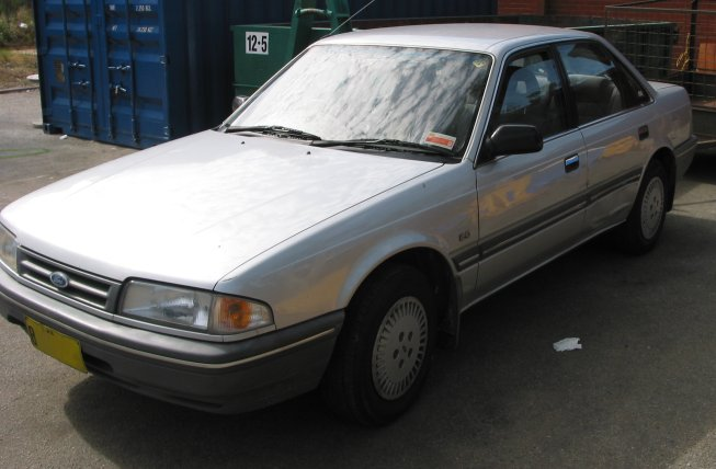 1989 Ford Telstar GL, photographed in Western Australia, Australia.